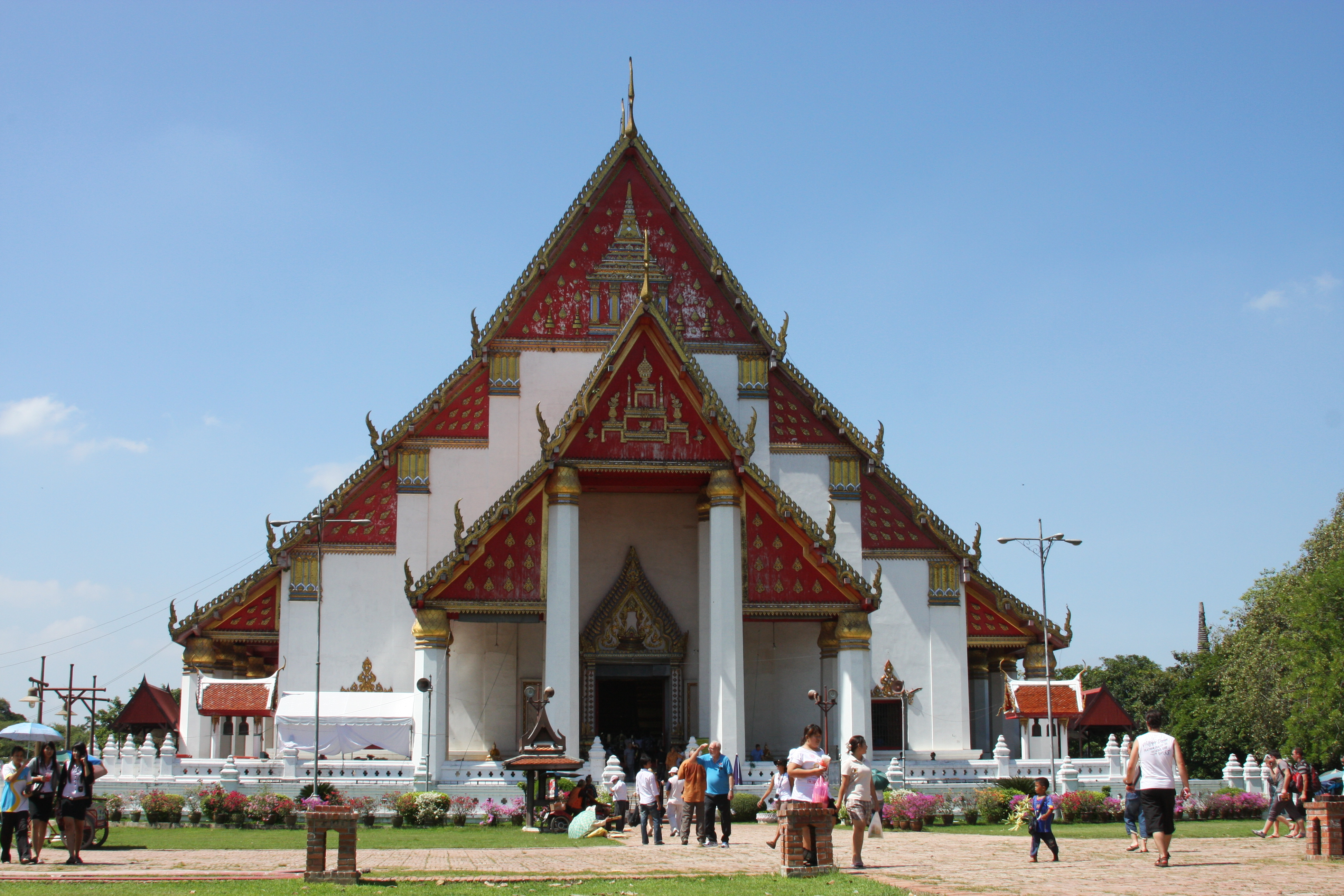 The temple of Wihan Phra Mongkon Bopit in old Ayutthaya